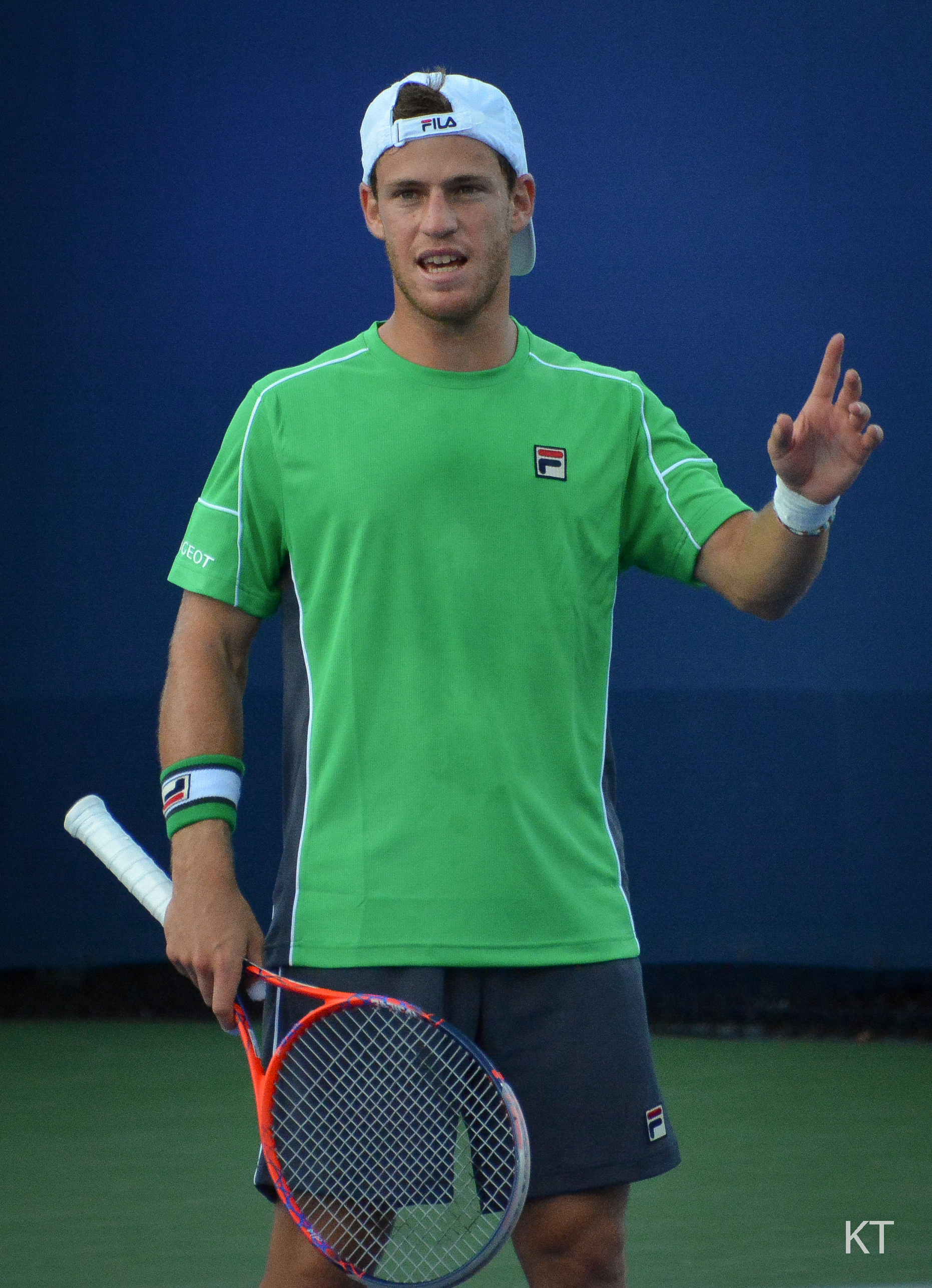 First round of men's doubles: Cam Norrie & Diego Schwartzman v Dusan Lajovic & Stefanos Tsitsipas. Day 4 of US Open 2018.